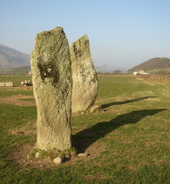 Standing stones. These prehistoric stones can be found by walking a field path SW from the level crossing on the main road.